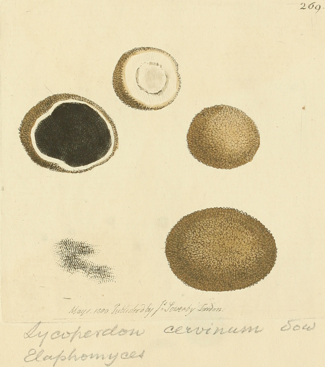 This is a plate from James Sowerby's Coloured Figures of English Fungi or Mushrooms.